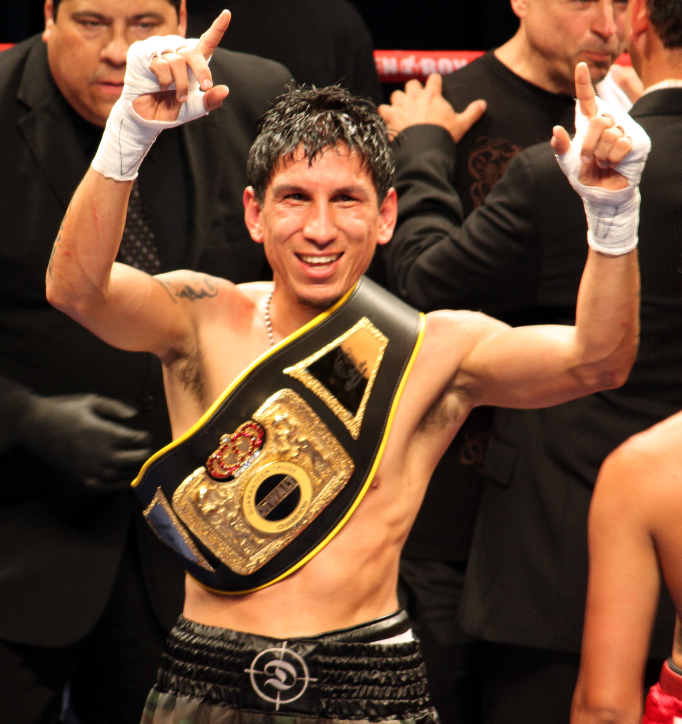 David Rodela at Fight Night Club event at the Club Nokia in Los Angeles, California, United States.